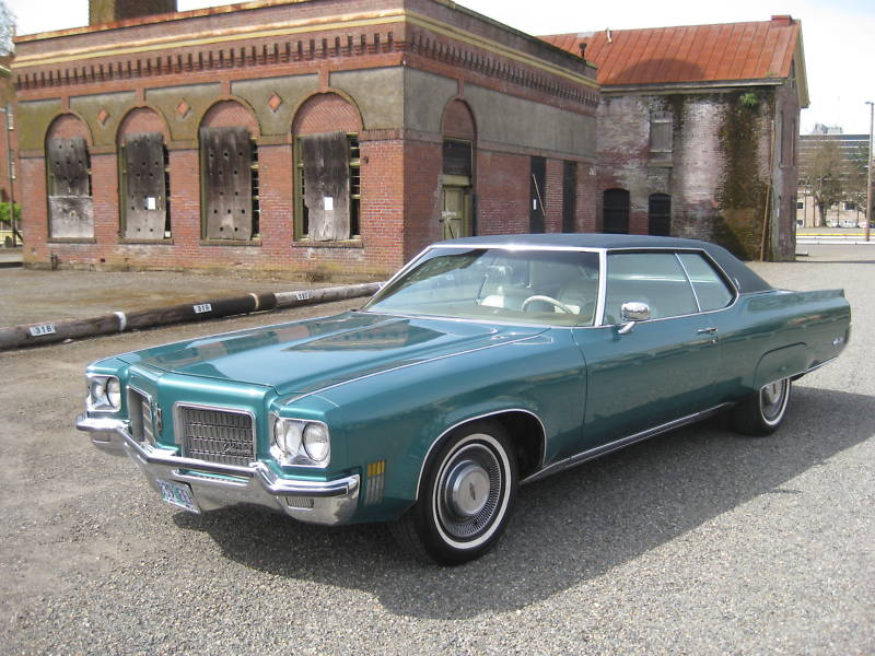 1971 Oldsmobile Ninety-Eight two door